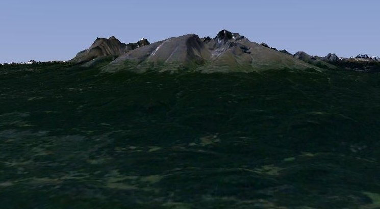 Satellite image of the northern flank of Ilgachuz Range.